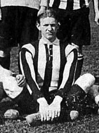 Argentine football team Alumni's all-time topscorer Eliseo Brown, posing with the team. The club was disolved in 1911.